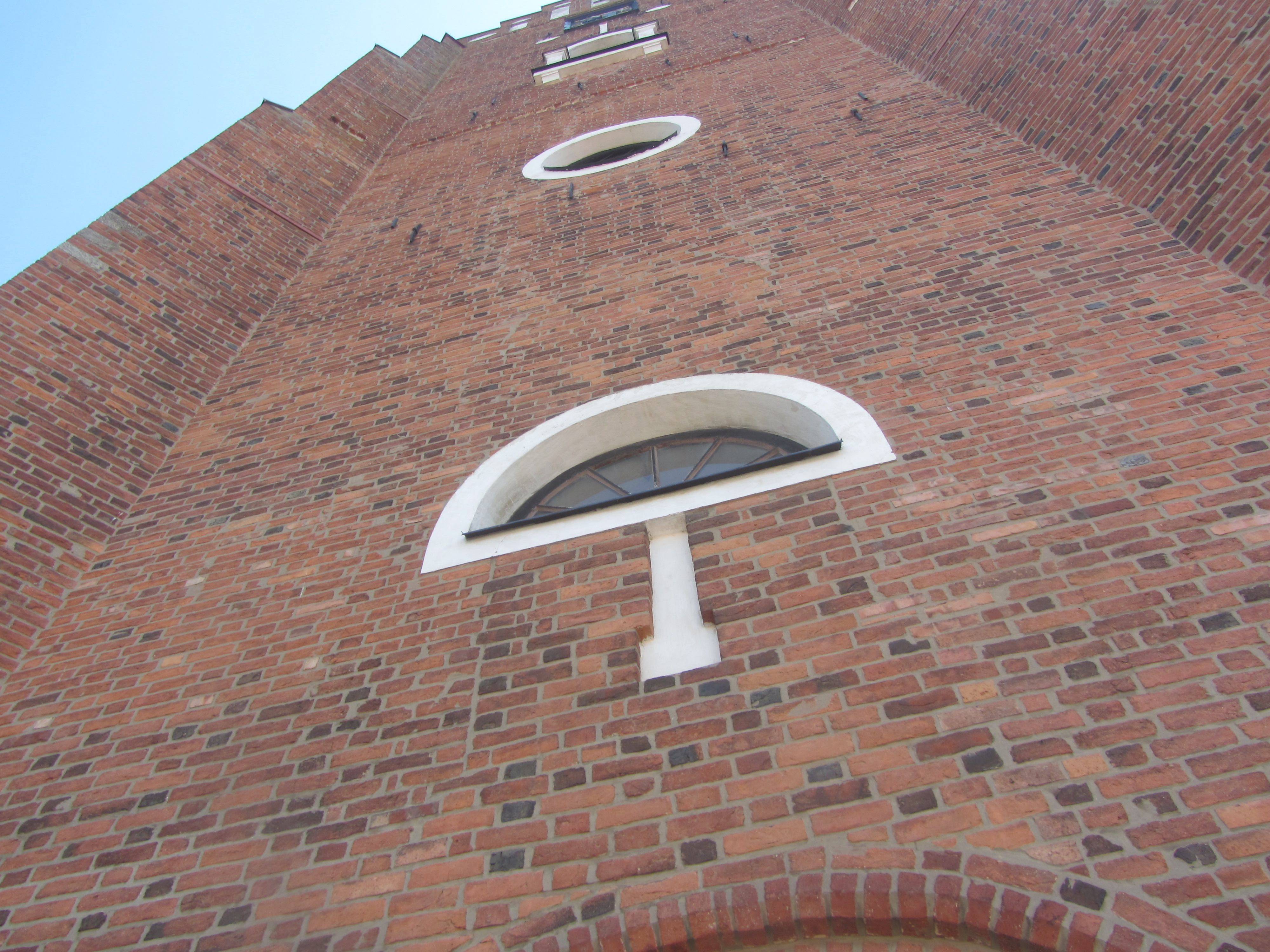 Western façade of the tower Rödtornet in Vadstena.